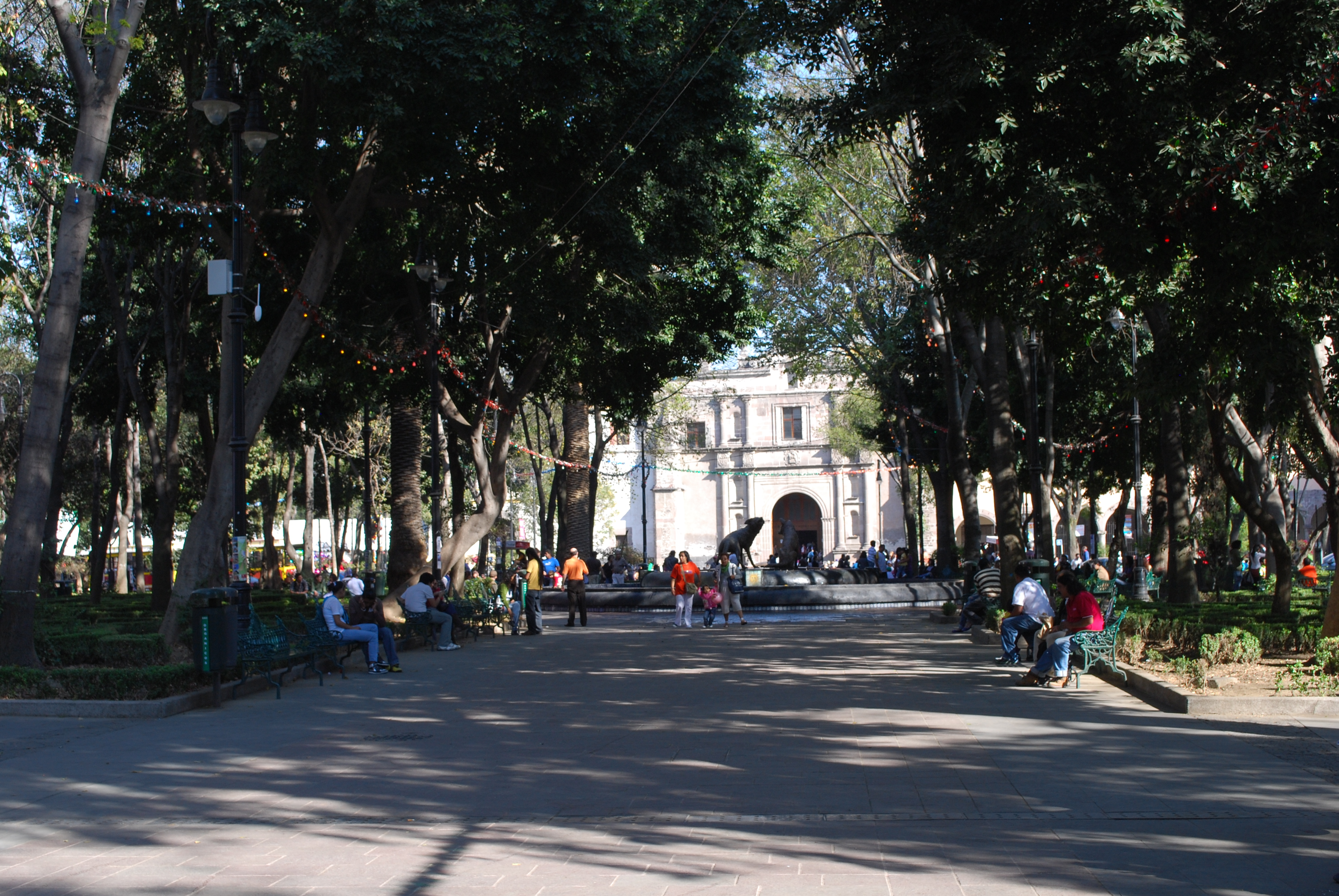 View of the Jardin del Centenario with the San Juan Bautista Church in the background in Coyoacan, Mexico City